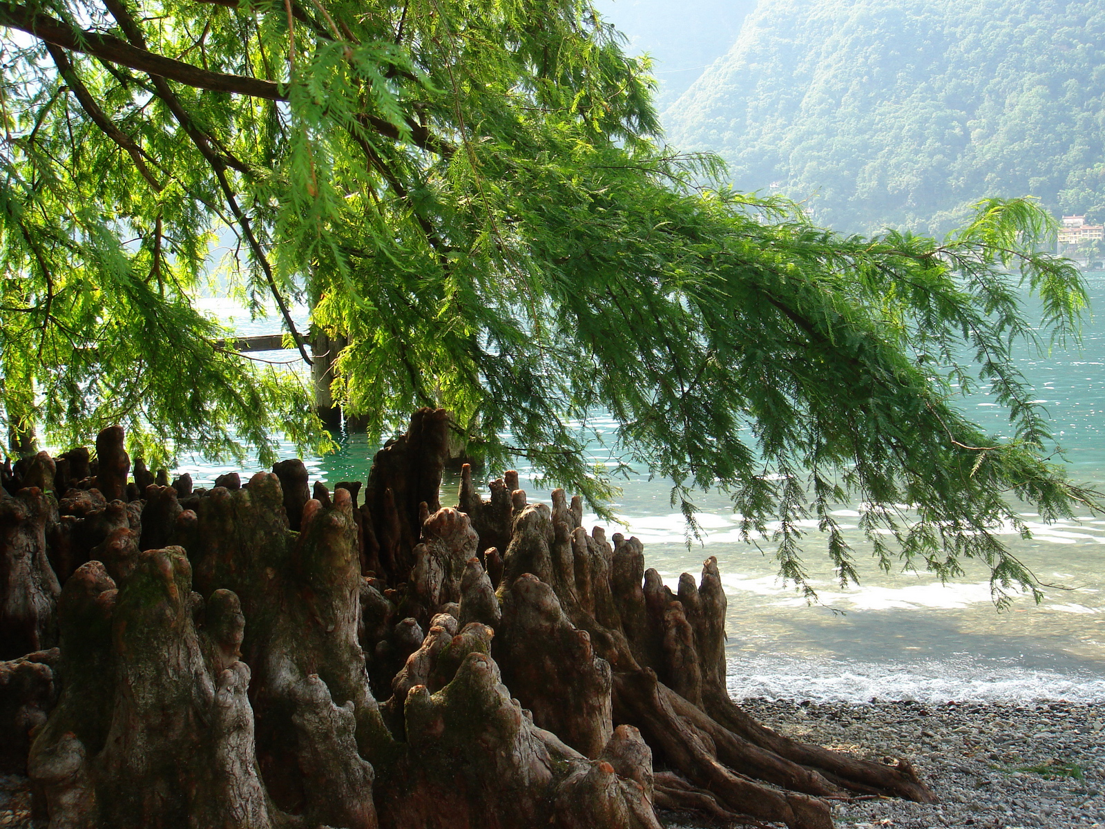 Cypress knee (Pneumatophore) of Taxodium distichum